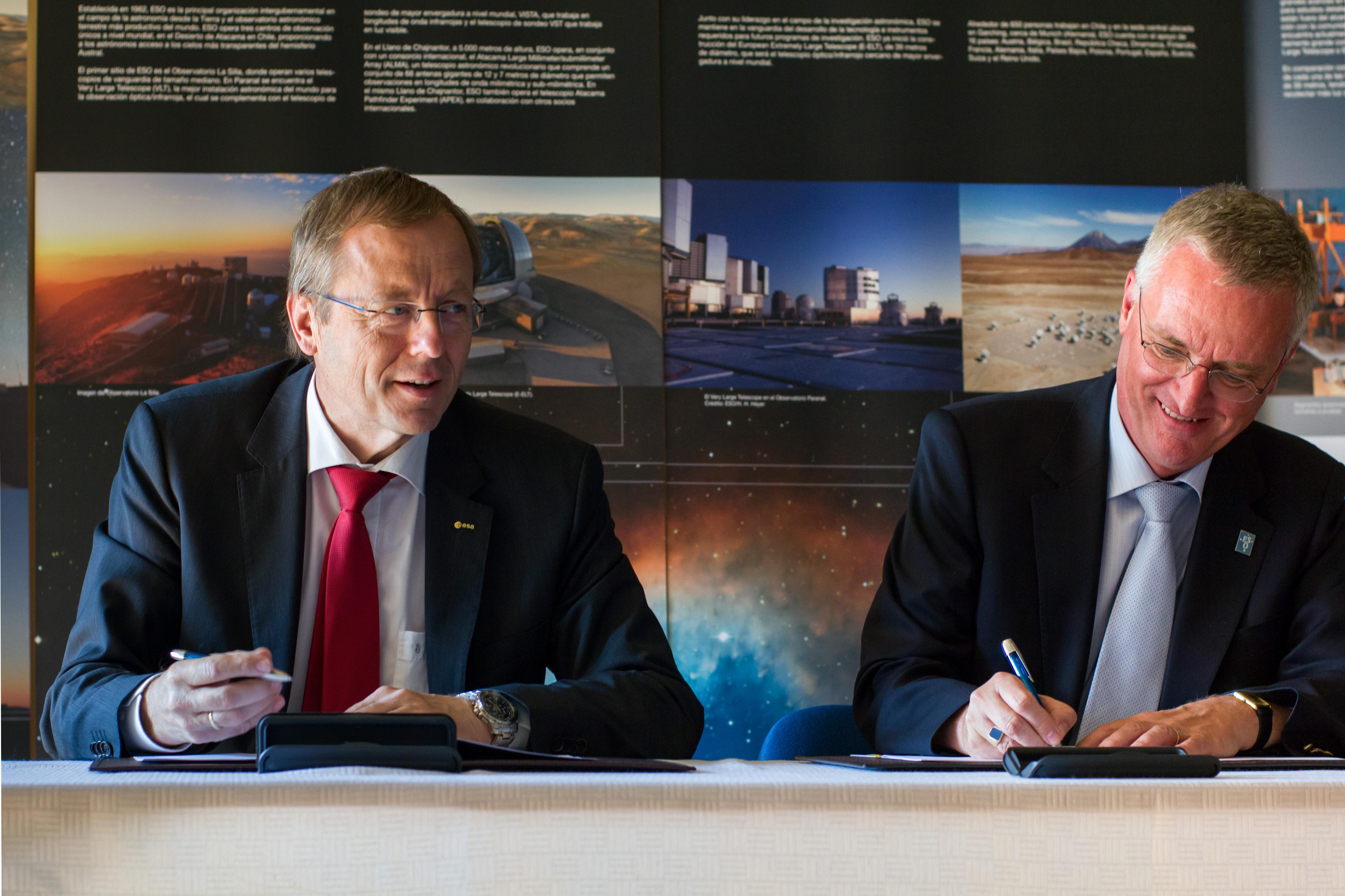 On 20 August 2015 the Director General of ESO, Tim de Zeeuw (right), and the Director General of ESA, Johann-Dietrich Wörner (left), signed a cooperation agreement between the two organisations at ESO’s offices in Santiago, Chile.